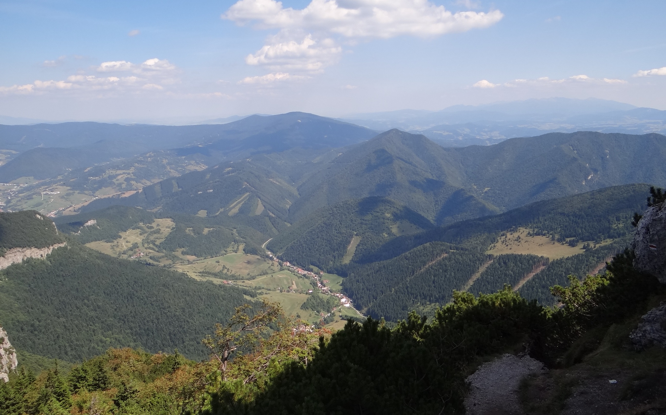 Oravskà Magura. View from Veľký Rozsutec